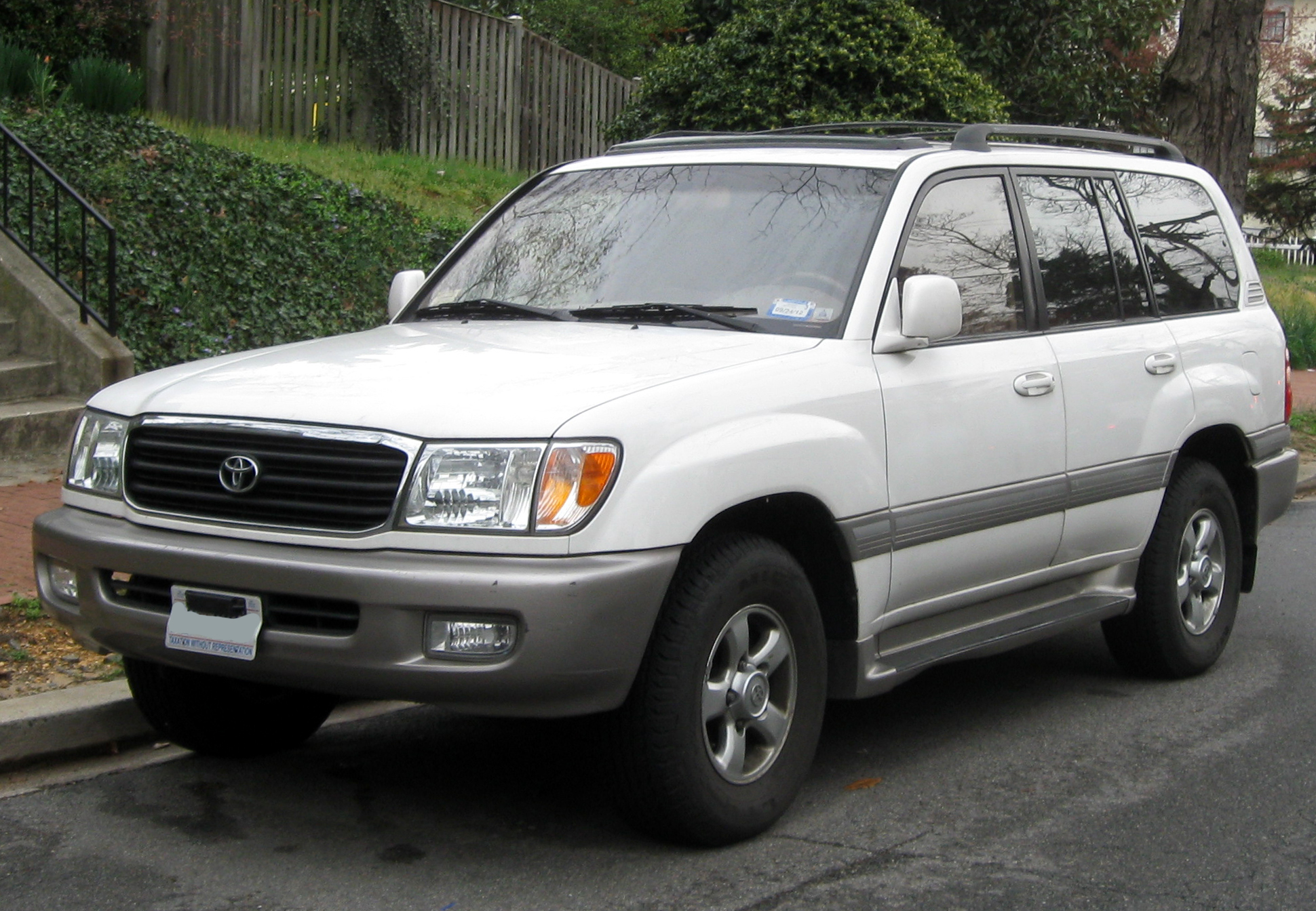 Toyota Land Cruiser photographed in Washington, D.C., USA.